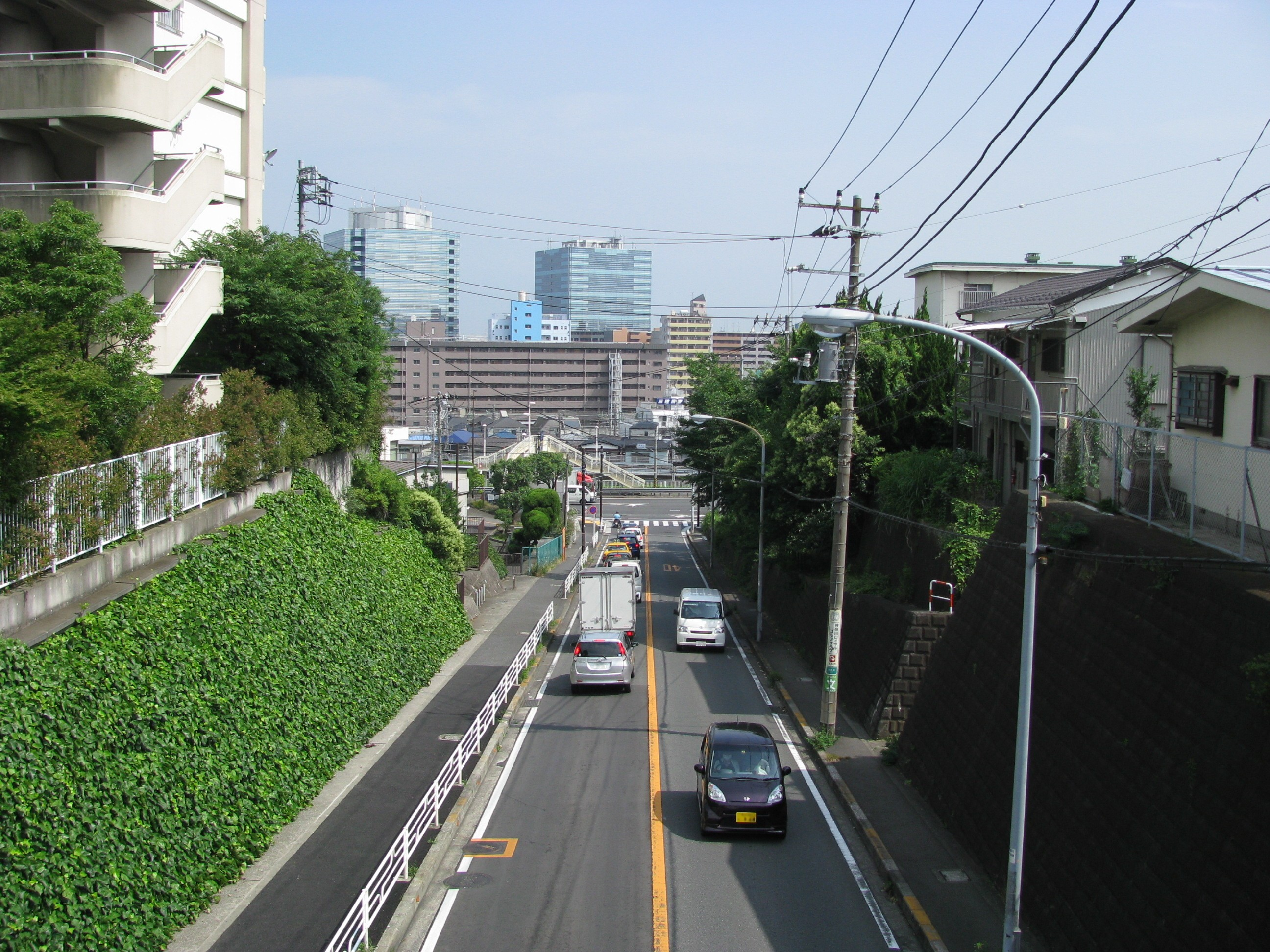 The Kanagawa Prefectural Route 2. This located is in Kanagawa, Yokohama, Kanagawa, Japan.